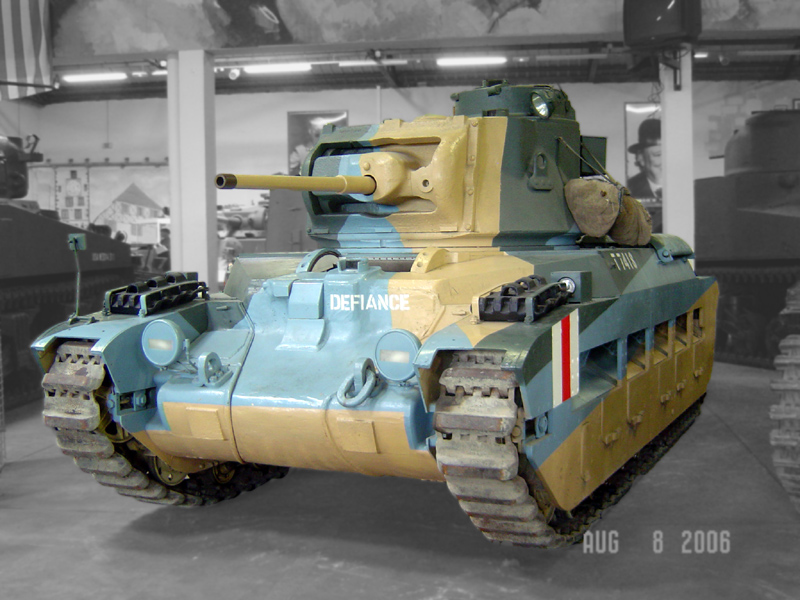 Matilda III on display at the Musée des Blindés in Saumur. The picture taken August 8, 2006.